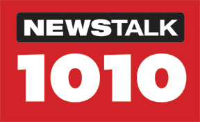 This is the logo for Newstalk 1010.